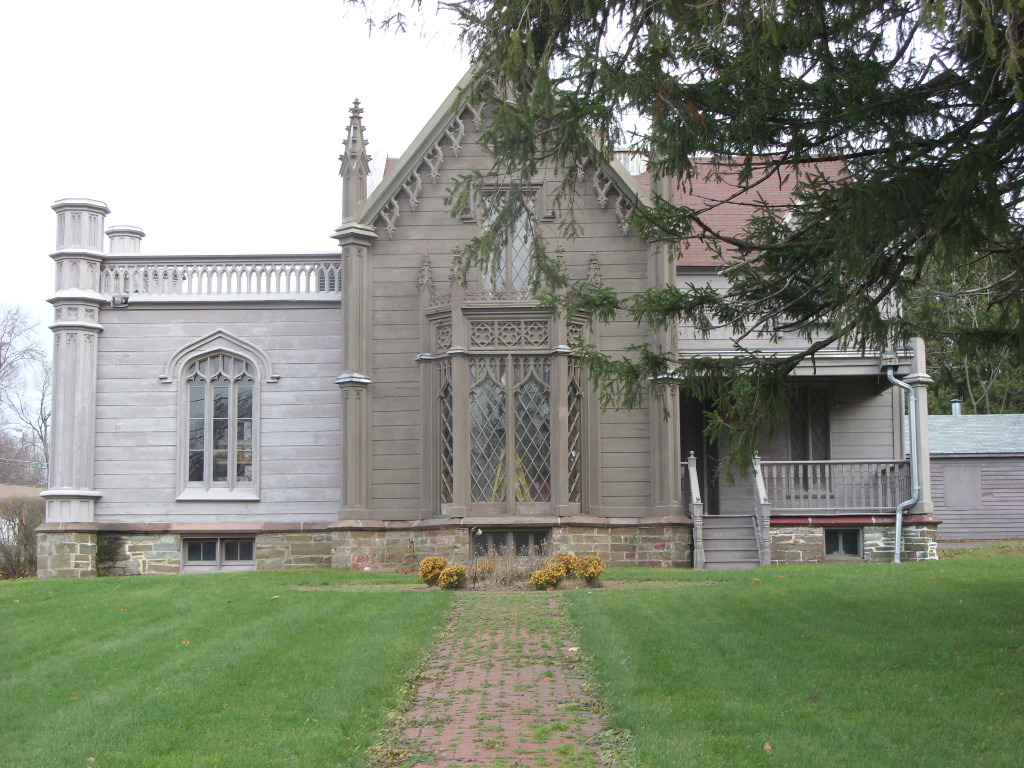 Schoolcraft House - Guilderland, NY (future home of the Schoolcraft Cultural Center)